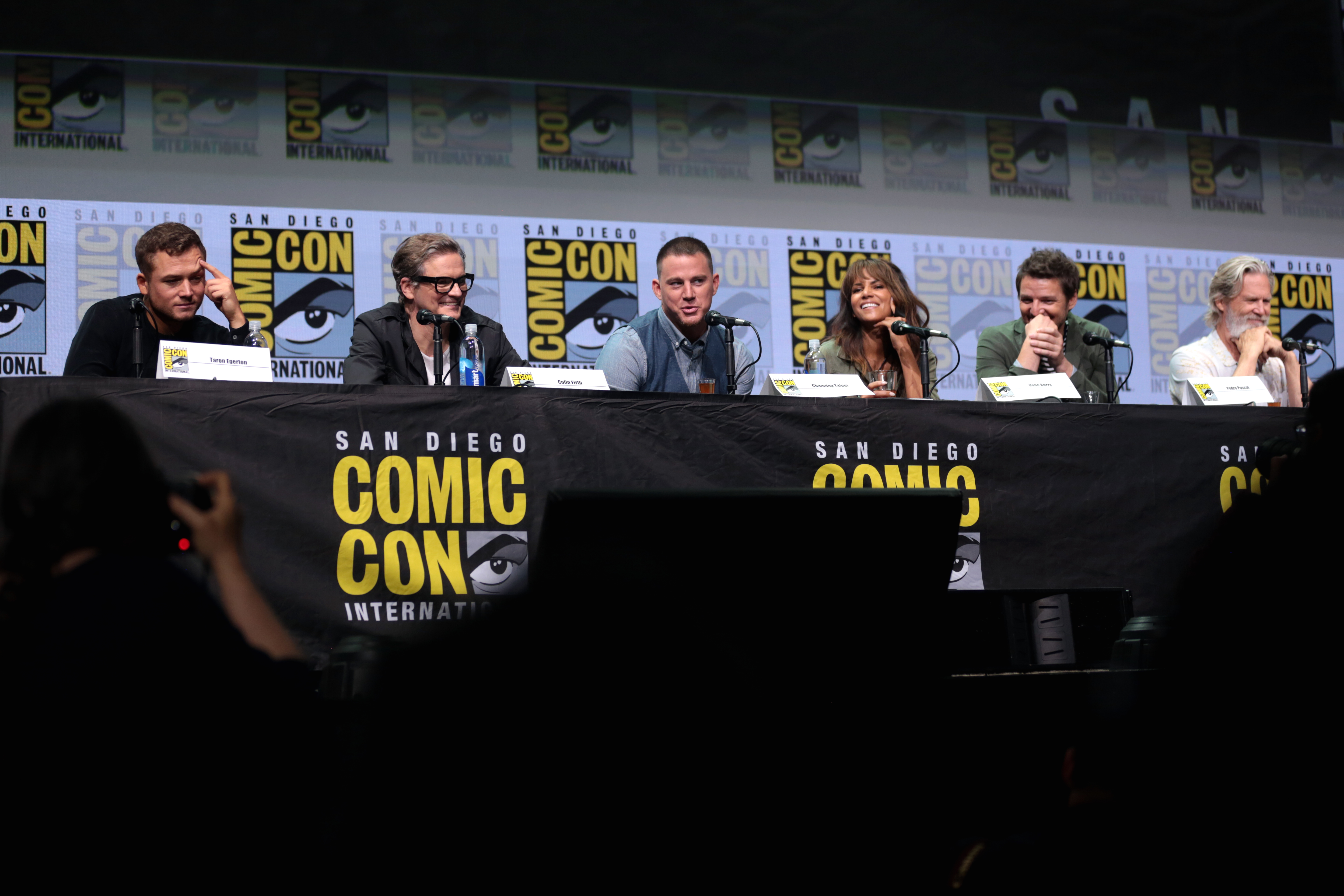 Taron Egerton, Colin Firth, Channing Tatum, Halle Berry, Pedro Pascal and Jeff Bridges speaking at the 2017 San Diego Comic Con International, for "Kingsman: The Golden Circle", at the San Diego Convention Center in San Diego, California.